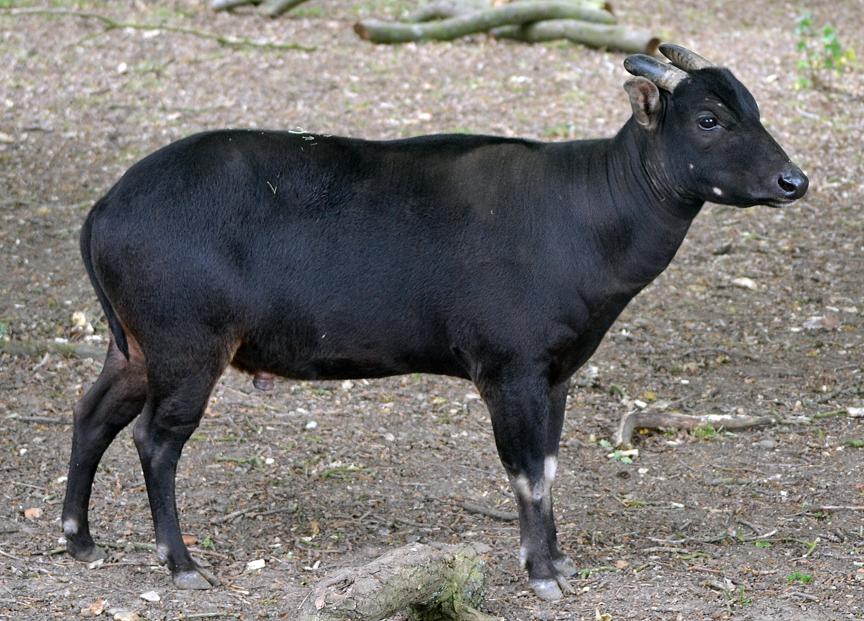 Lowland Anoa ( Bubalus depressicornis ) photographed May 2011 in Marwell Zoo, Hampshire, UK.